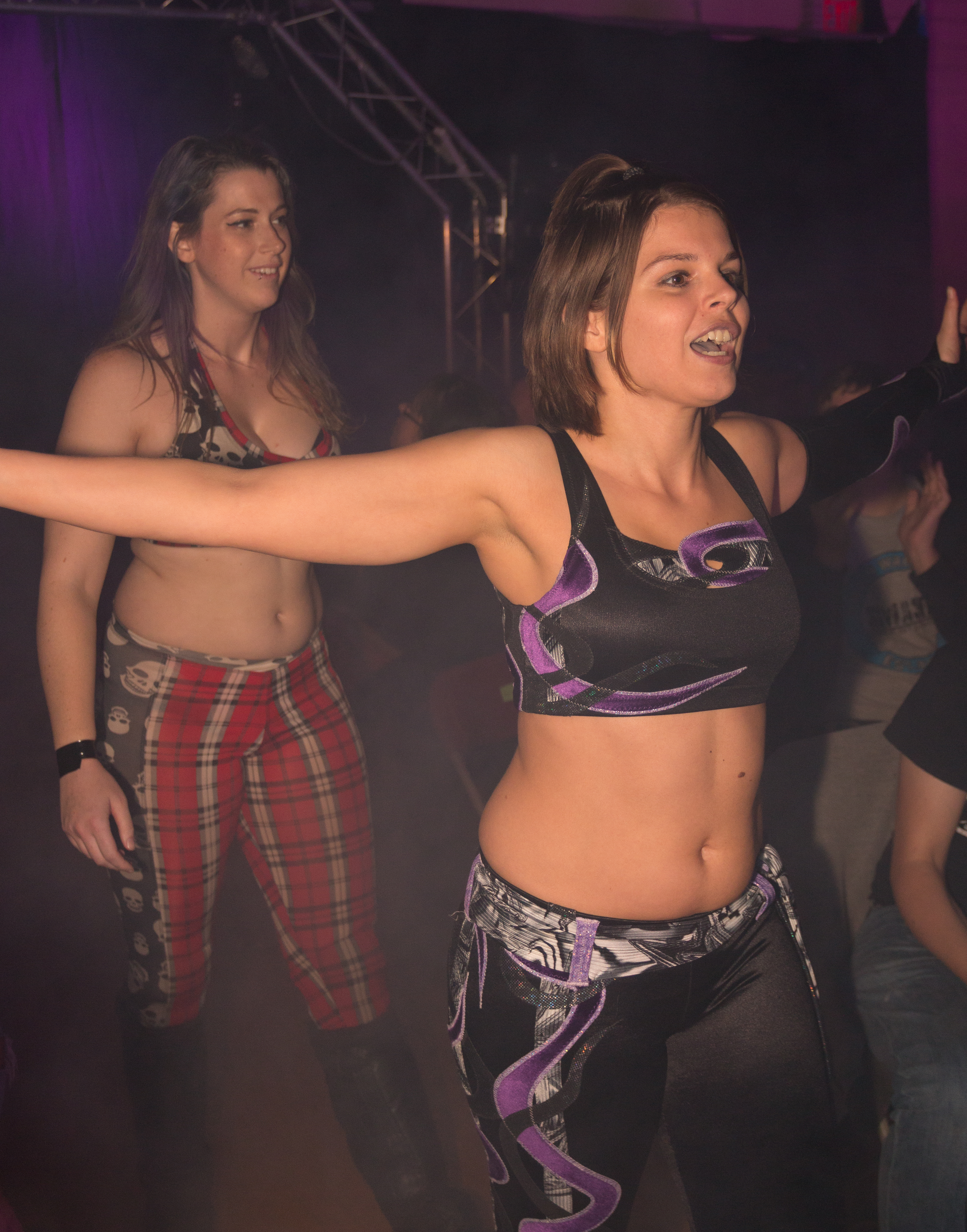 The Canadian Ninjas - Portia Perez (front) and Nicole Matthews - making their ring entrance at Smash Wrestling's Canusa 2015 show in Etobicoke, ON